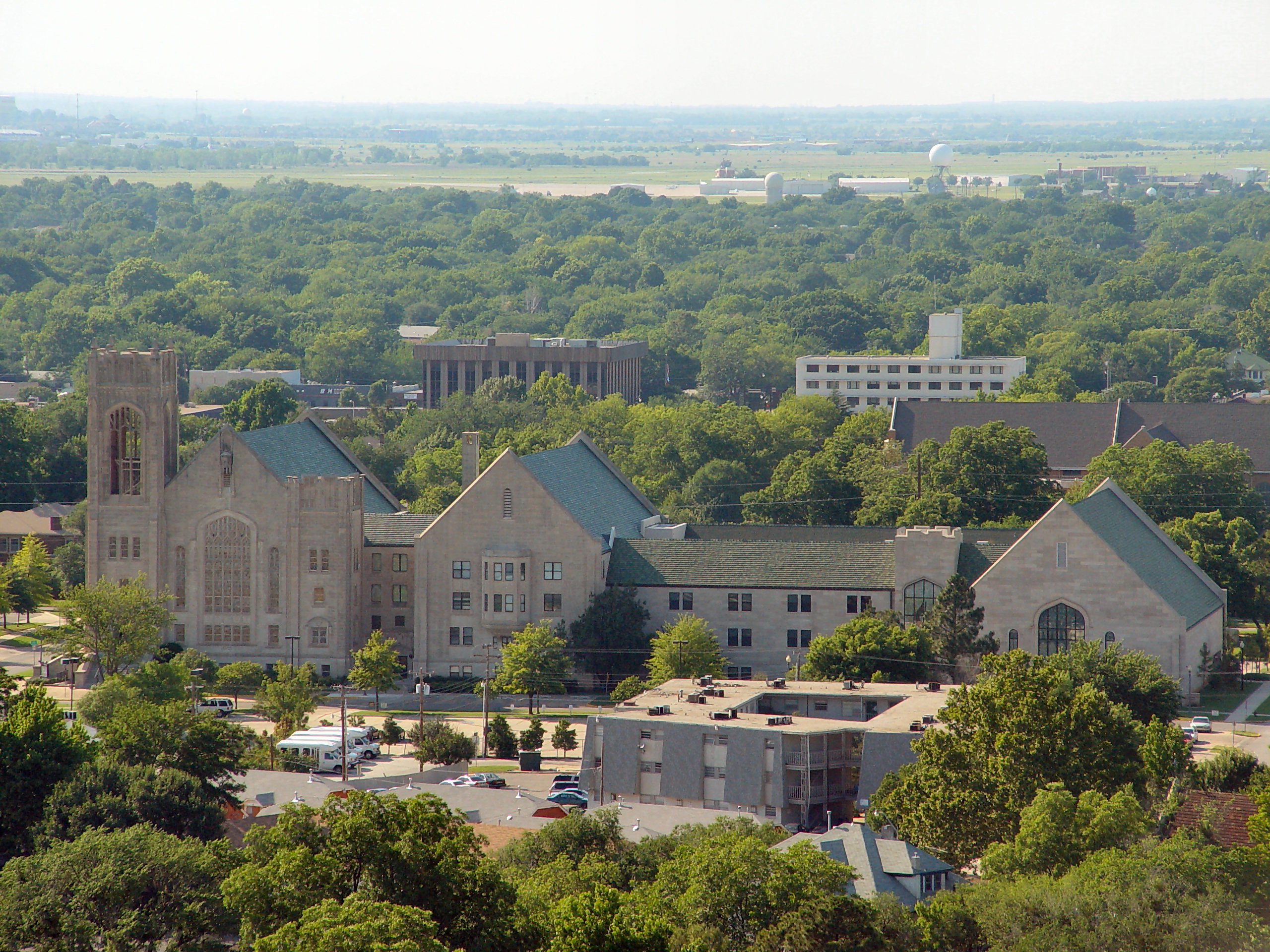 McFarlin Memorial Methodist Church, seen from the roof of Sarkeys Energy Center on the OU campus